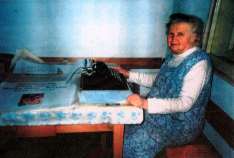 MJB Marija Jelen-Brenčič by writing on old Underwood write-machine. It is original photo of on greater plakat of little photo ih her house